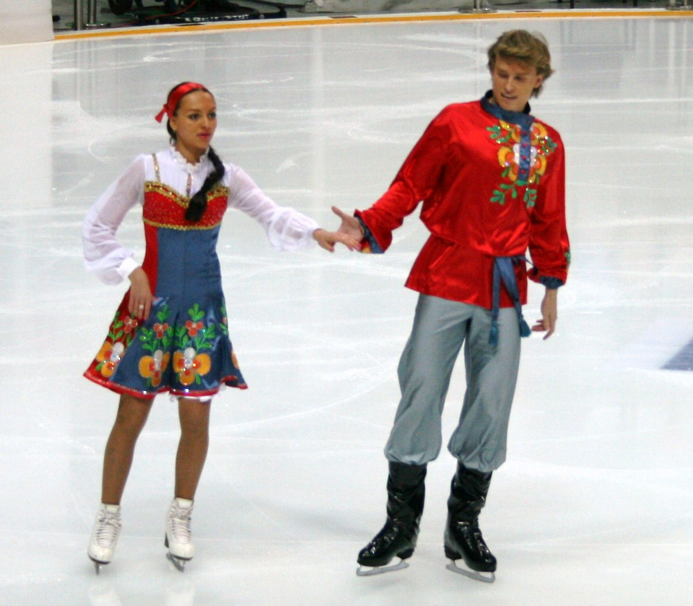 Ekaterina Riazanova and Ilia Tkachenko at the 2009 Rostelecom Cup. Original dance - folk